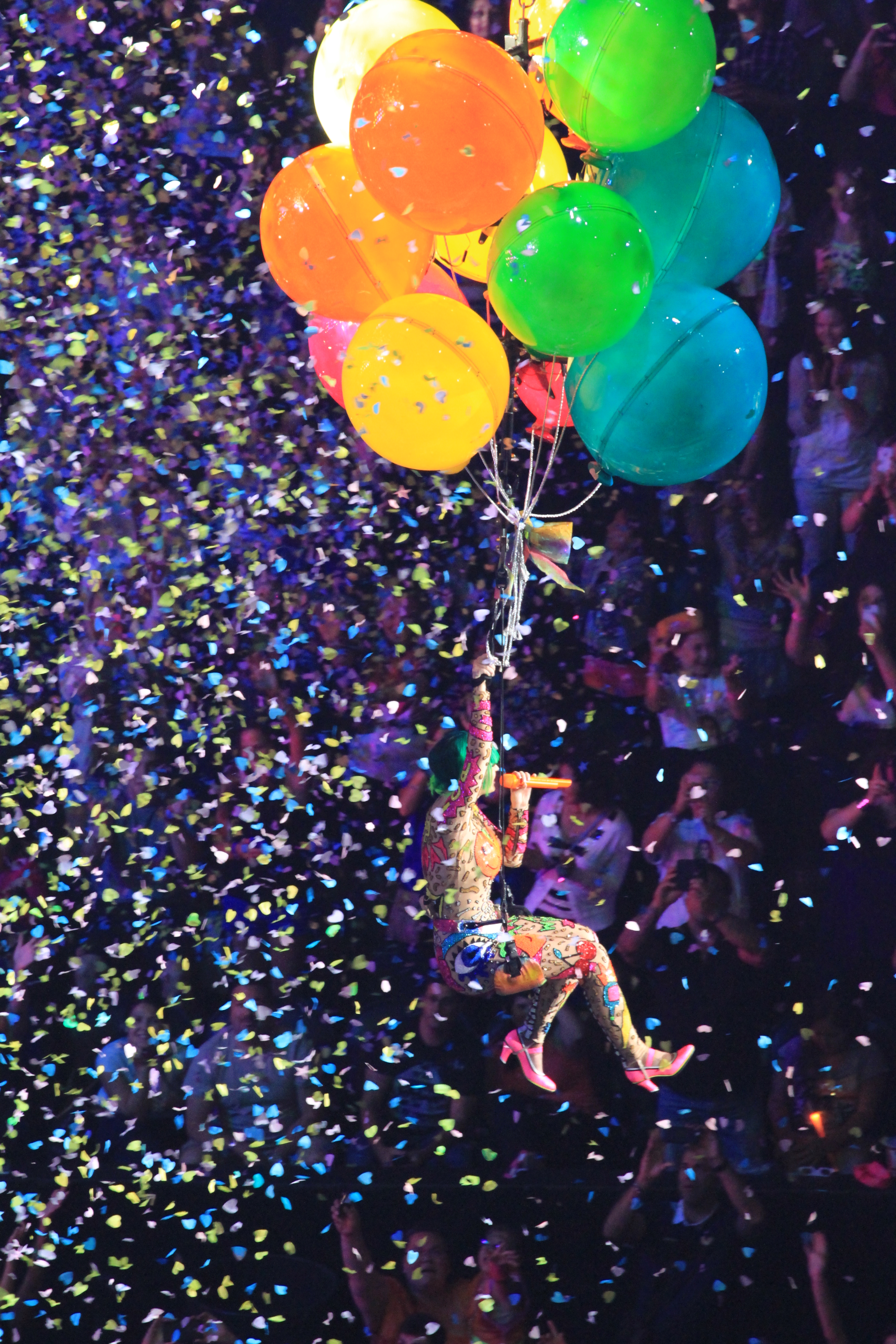 Katy Perry performing "Bithday" at Prudential Center in Newark in July 12, 2014.